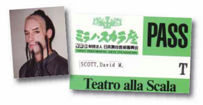 David Meerman Scott as a extra in Teatro alla Scala's production of Turandot, NHK Hall, Tokyo, Japan, 1988